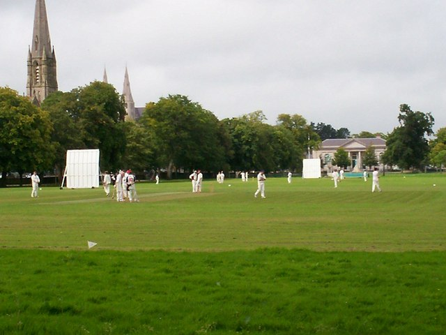 Cricket on the Mall, Armagh There were two matches going on at the same time when this photograph was taken.